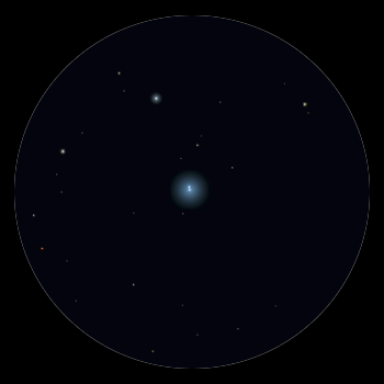 Graffias